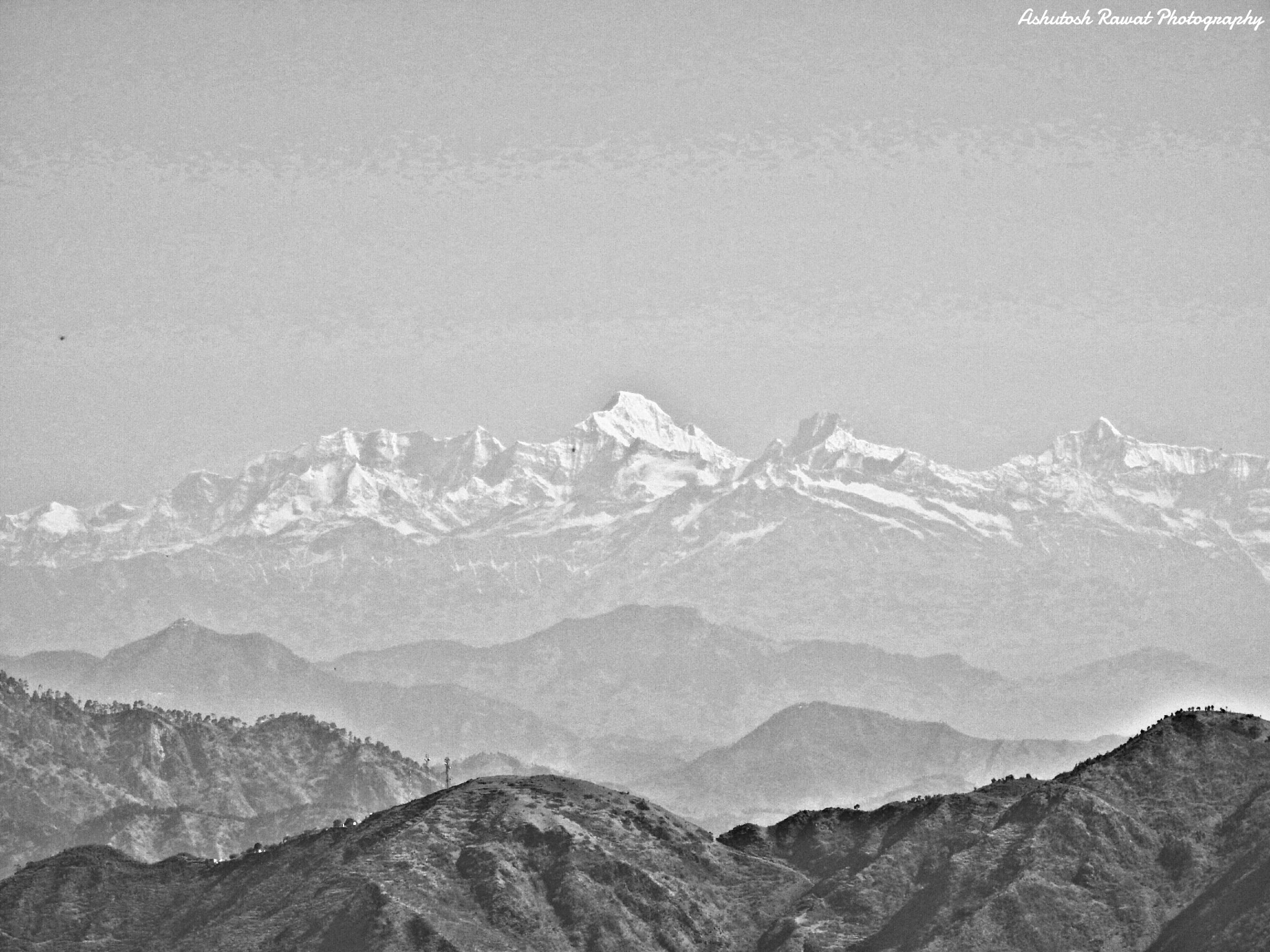 Gangotri group Himalaya Uttarakhand